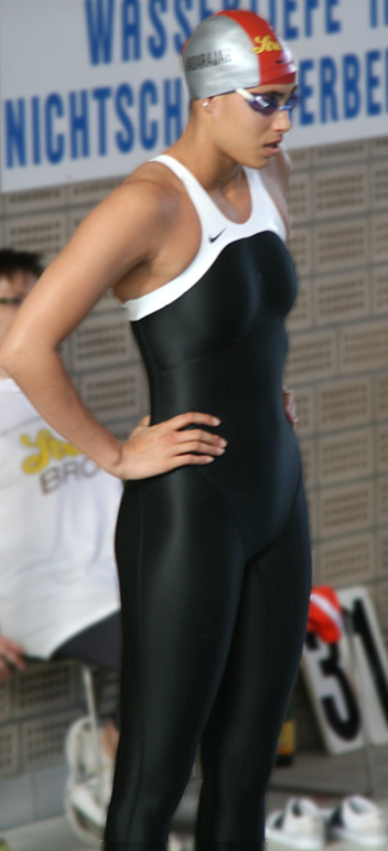 Austrian swimmer Fabienne Nadarajah at the 19th International Stroeck Austria-Meeting 2008 at the Wiener Stadthalle.